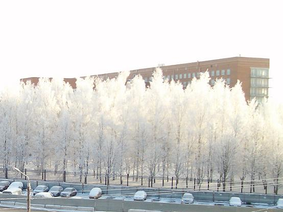 Glushanki